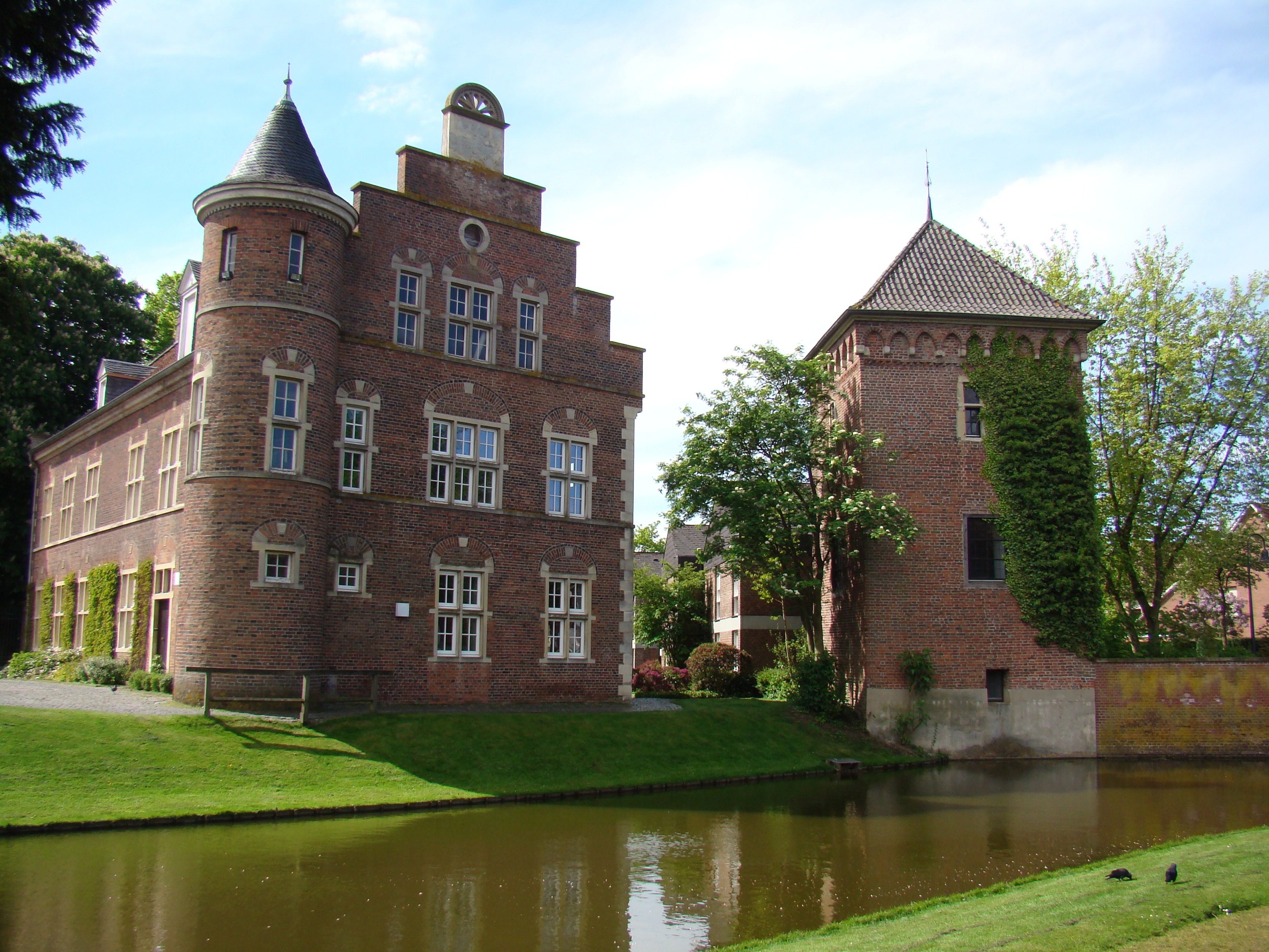 Castle Gemen (Germany)